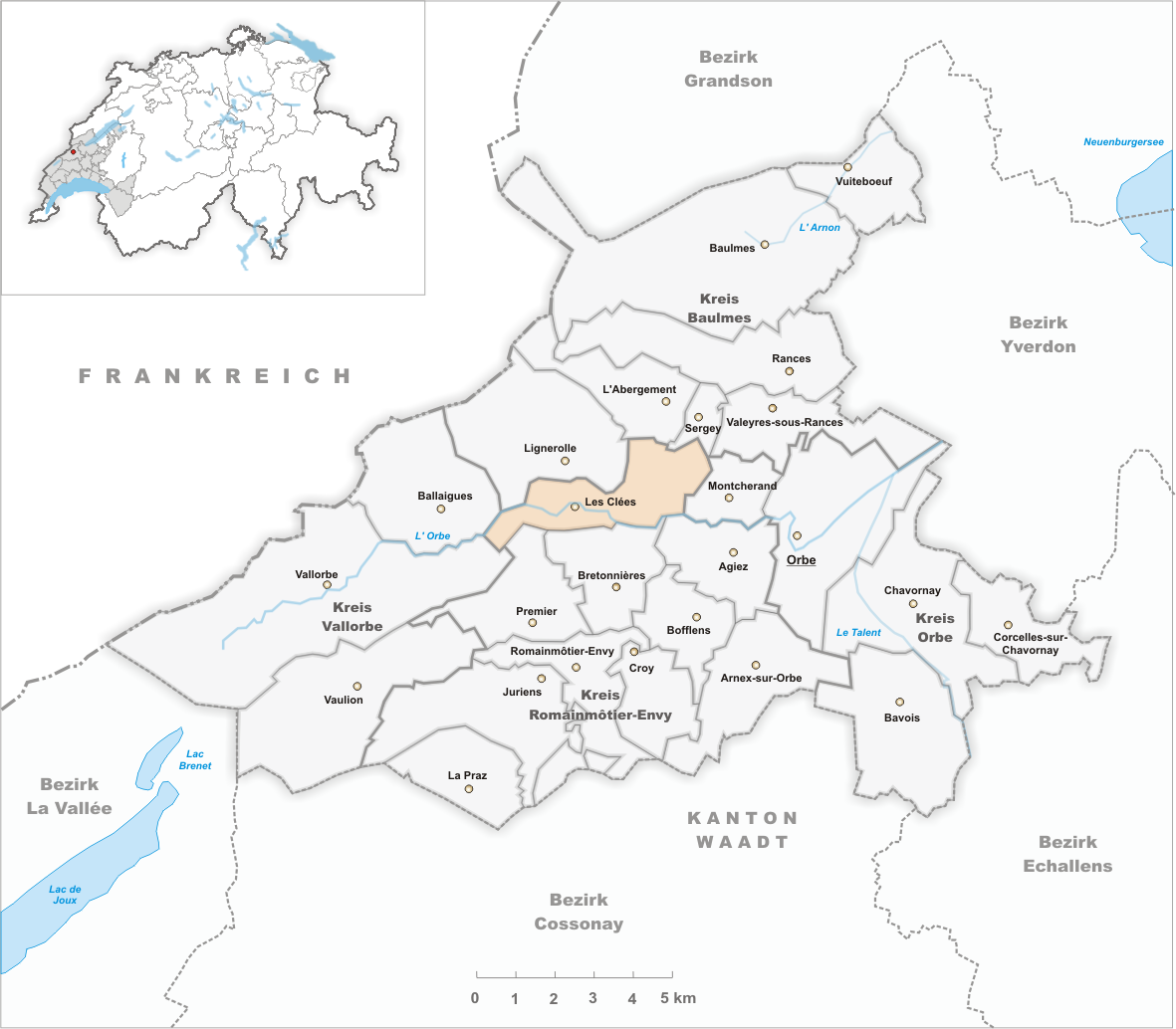 Municipality Les Clées